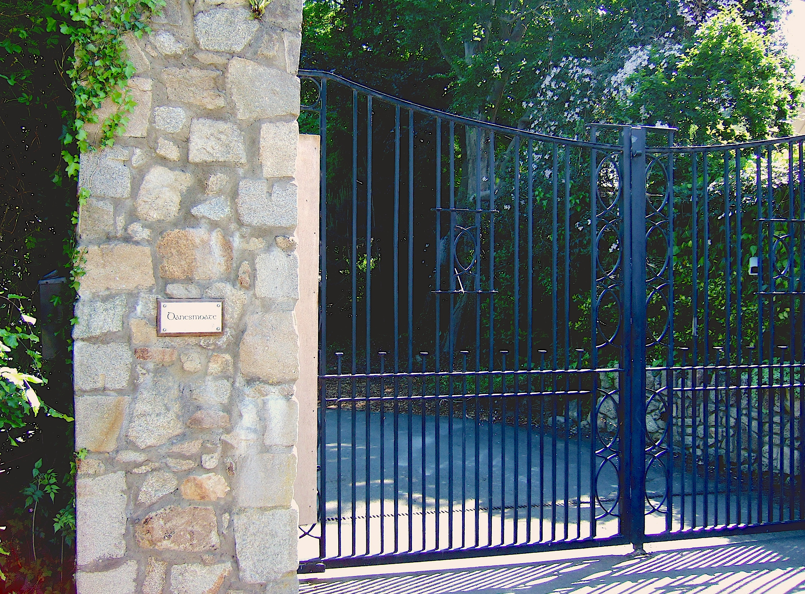 Adam Claytons (Band U2) House where the record The Joshua Tree was recorded